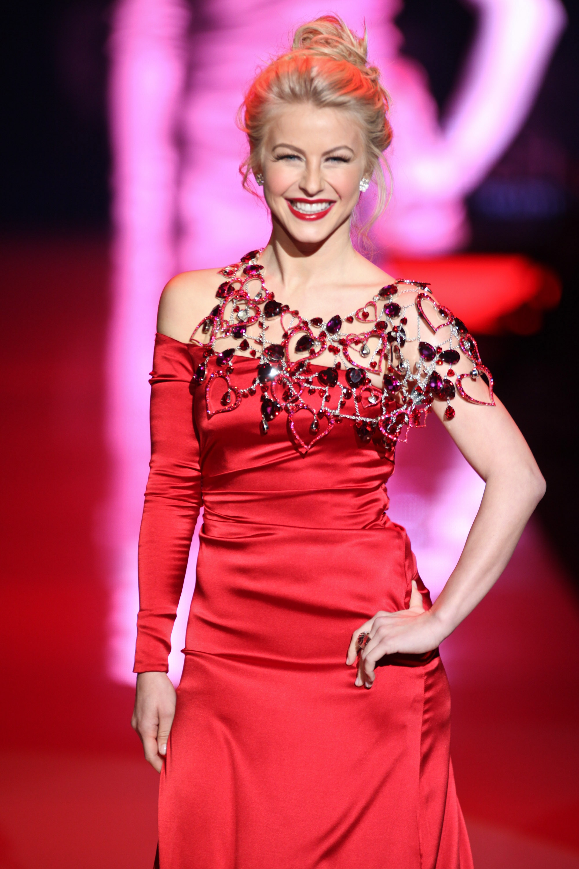 Making its debut at the Lincoln Center venue, The Heart Truth’s Red Dress Collection Fashion Show unveiled its 2011 collection of red dresses designed to celebrate the Red Dress as the national symbol for women and heart disease awareness. More than 20 of today’s top celebrities walked the runway in red dresses by America’s top designers to inspire women to take action to protect their heart health. The Heart Truth® is a national awareness campaign for women about heart disease sponsored by the National Heart, Lung, and Blood Institute (NHLBI), part of the National Institutes of Health, U.S. Department of Health and Human Services (HHS). ® The Heart Truth, its logo and The Red Dress are registered trademarks of HHS. Participation by Mercedes-Benz Fashion Week, Diet Coke, Swarovski, AOL, and Bobbi Brown does not imply endorsement by HHS.